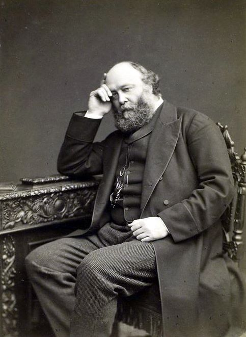 Robert Cecil (Marquis of Salisbury)